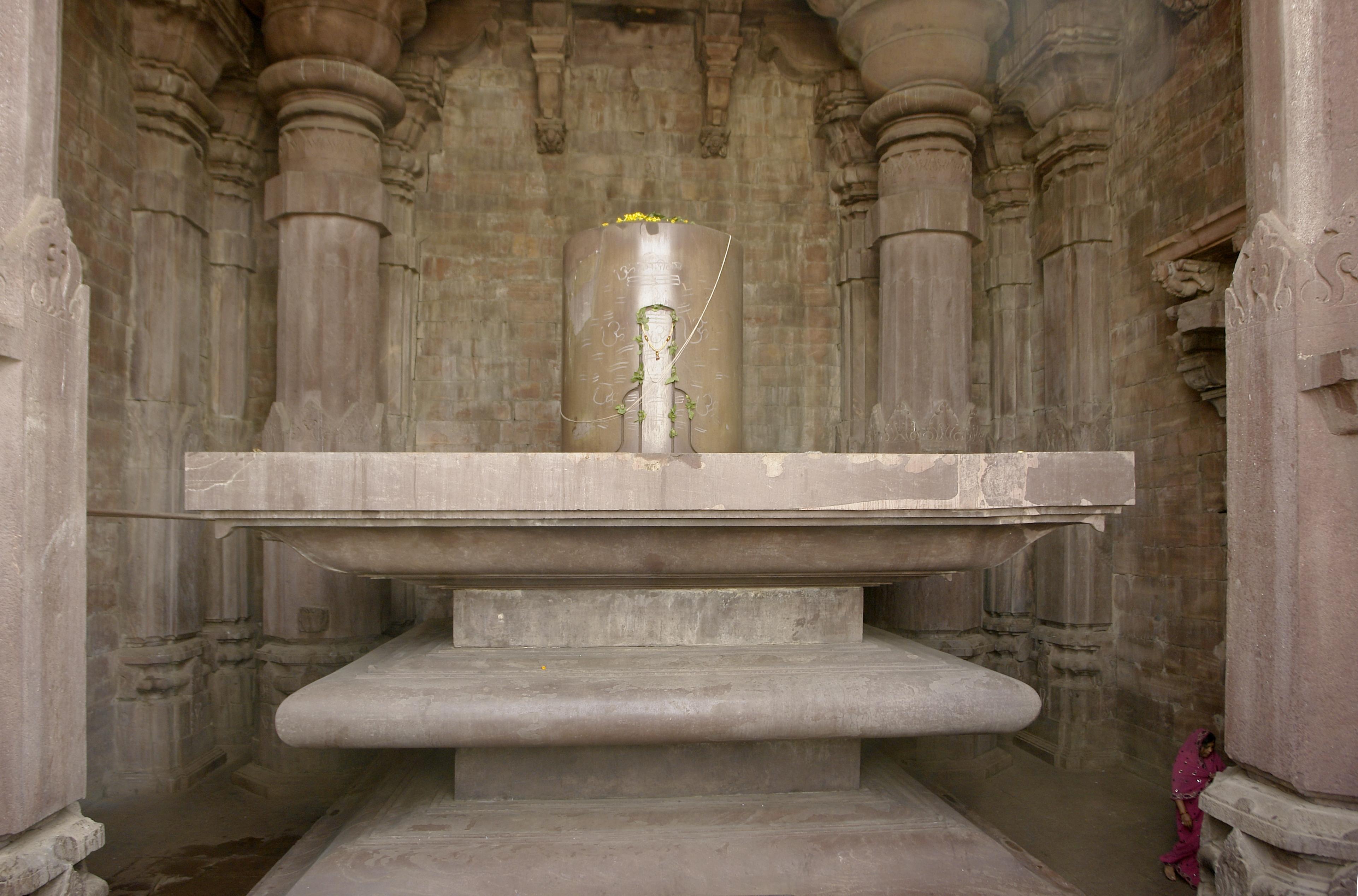 Lingam of Bhojpur temple, Raisen district, Madhya Pradesh, India. The biggest lingam in India: 6.5 m high x 2.5 m wide.